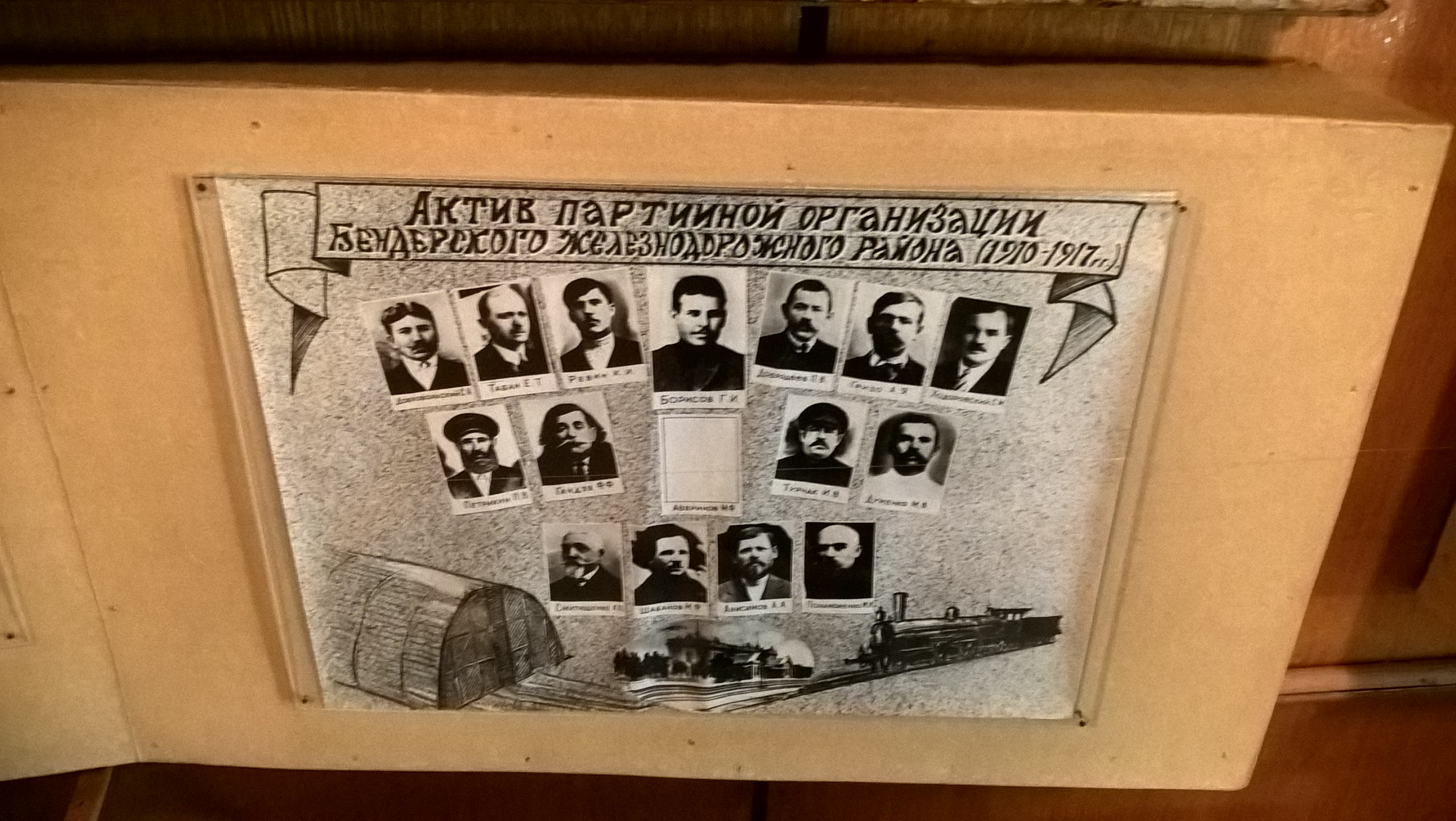 Bolsheviks from Bender railway workshops